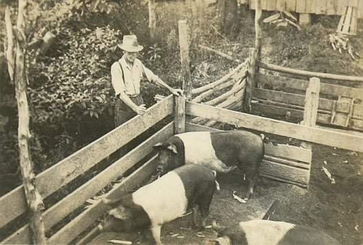 A farm pig pen